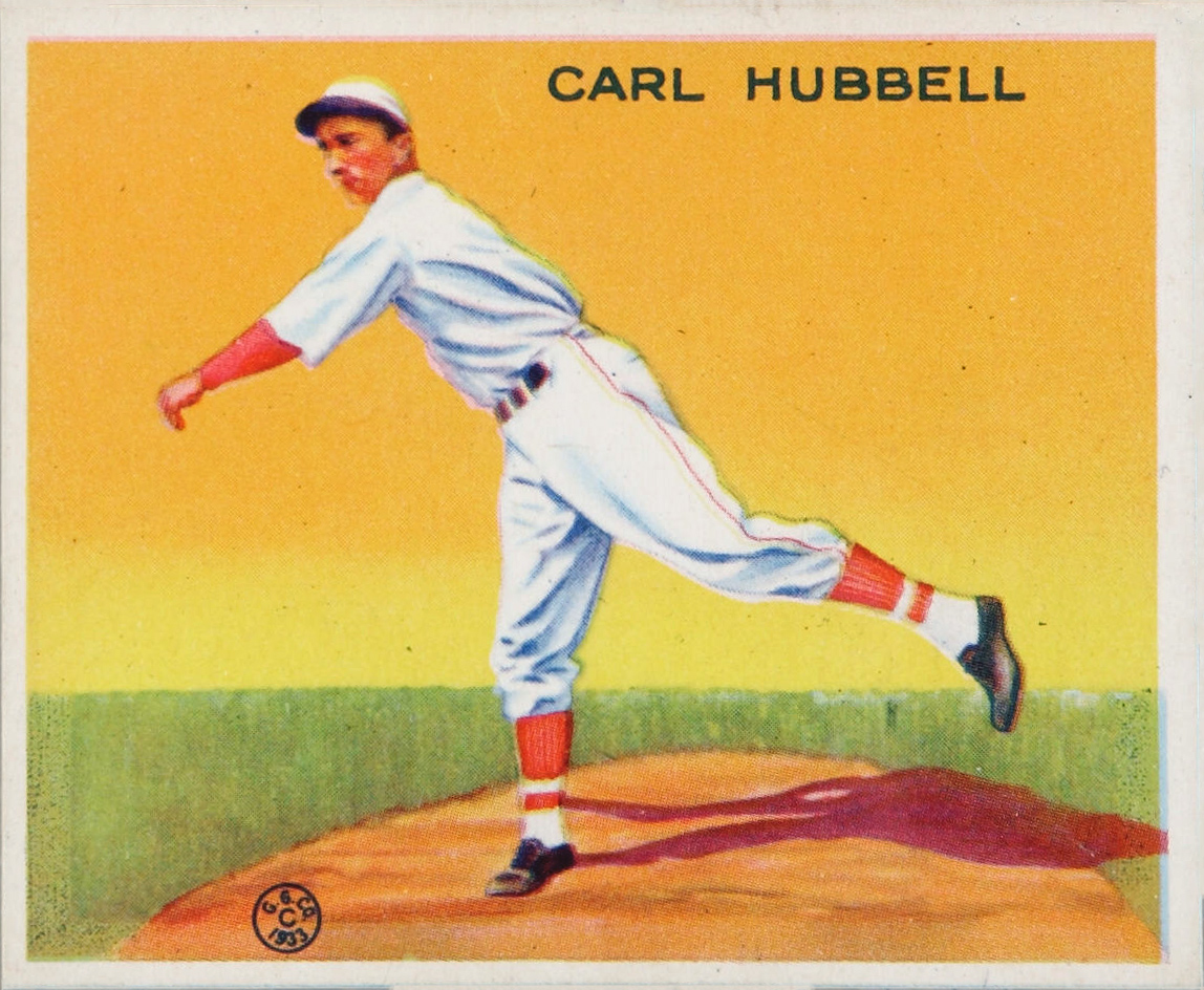 1933 Goudey baseball card of Carl Hubbell of the New York Giants #230. PD-not-renewed.